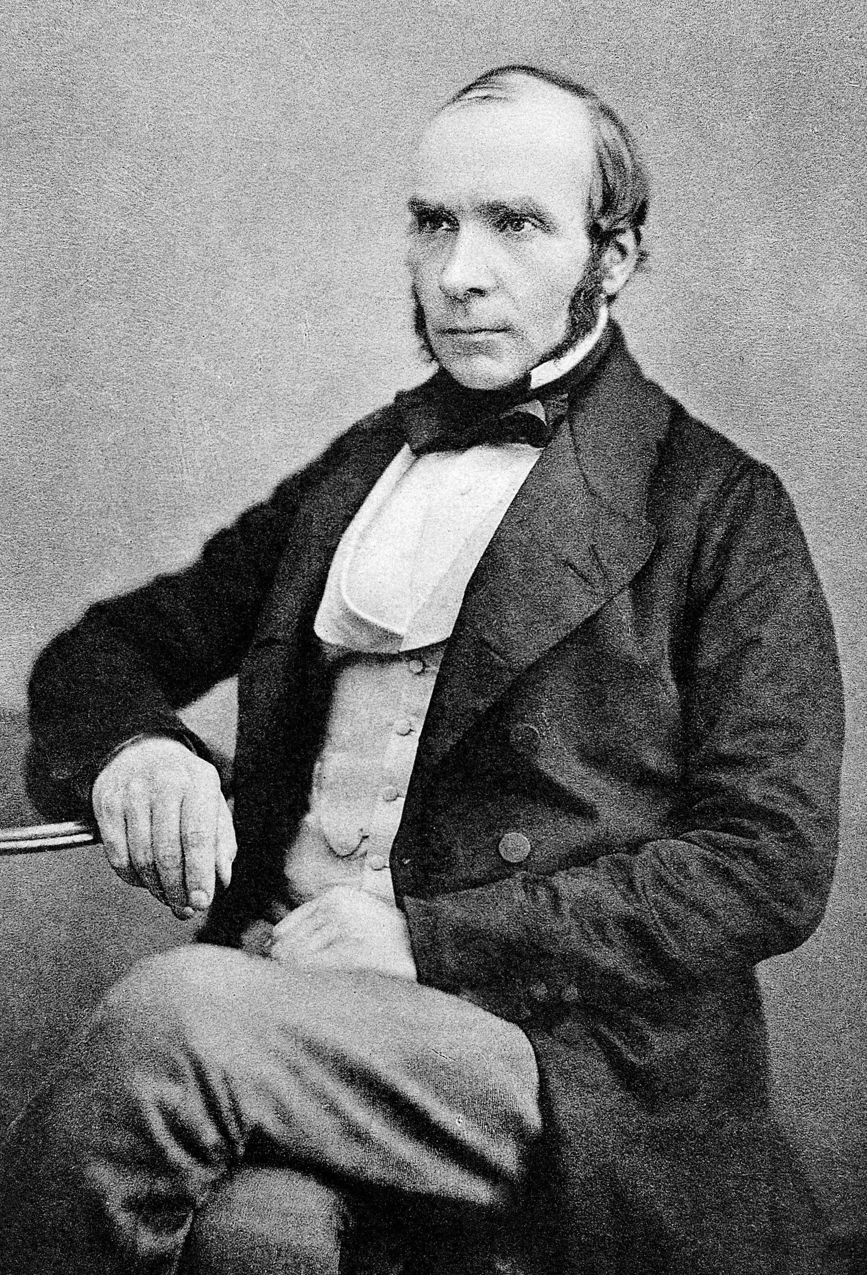 Dr. John Snow (1813-1858), British physician.